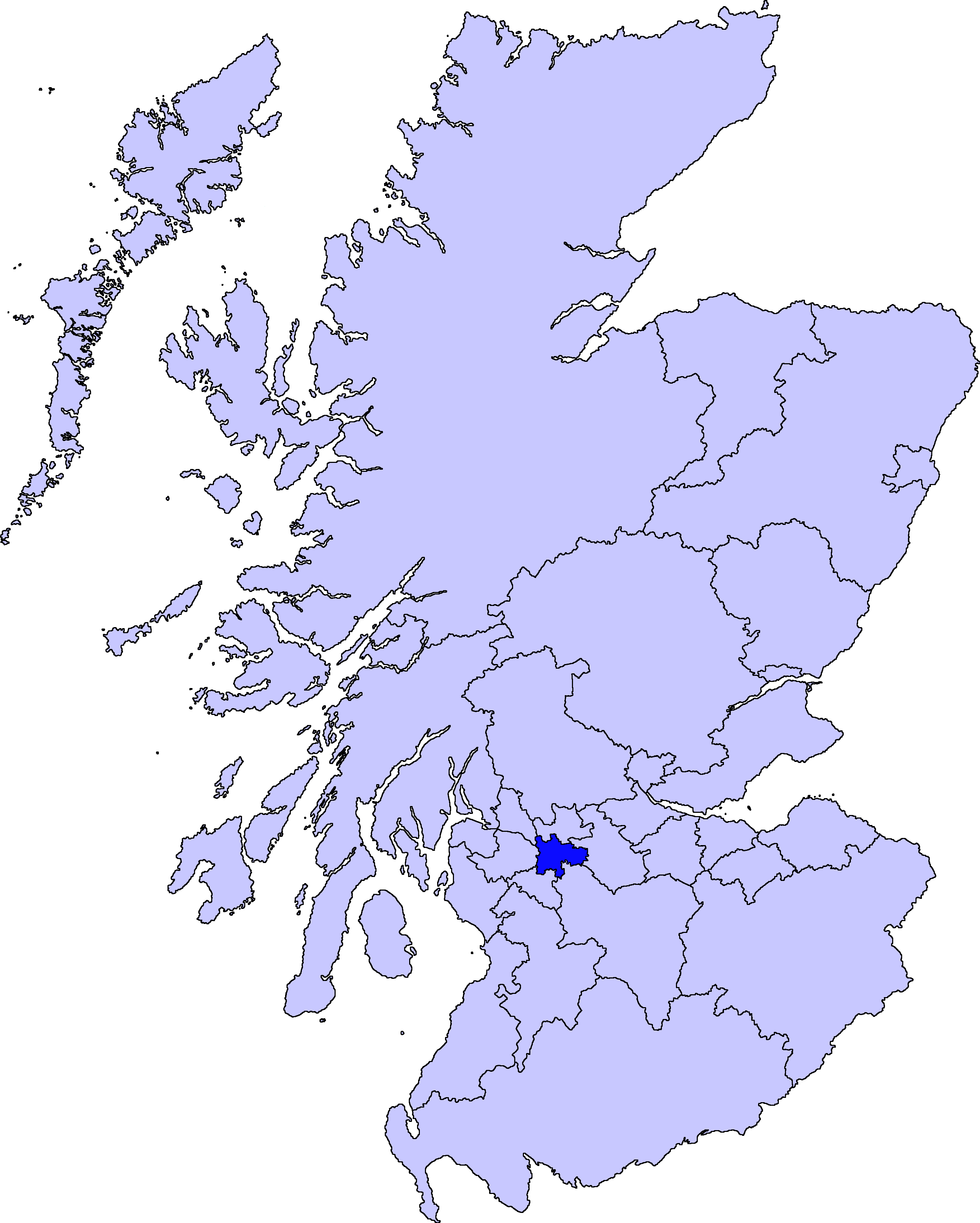 map of Glasgow area